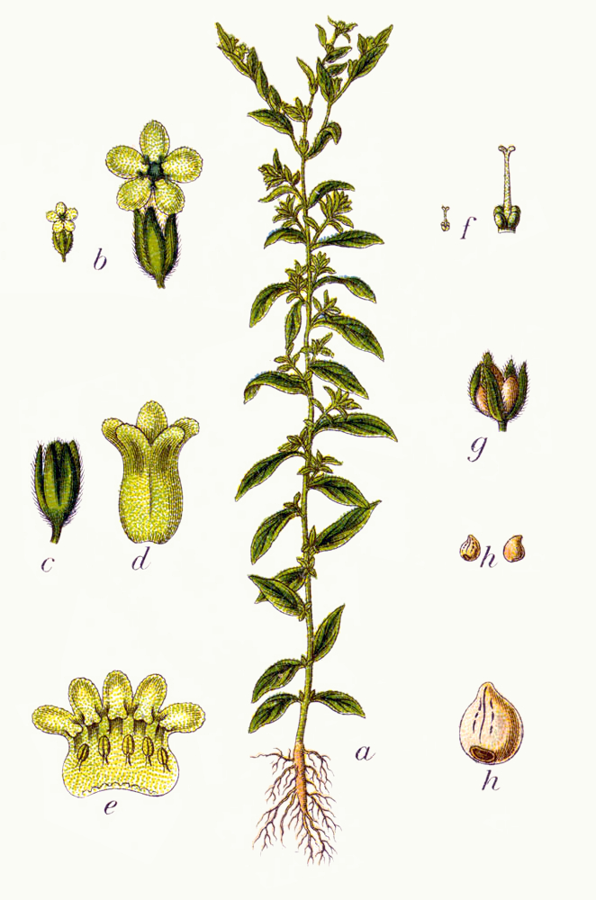 Lithospermum officinale L. Original Caption Echter Steinsame, Lithospermum officinale